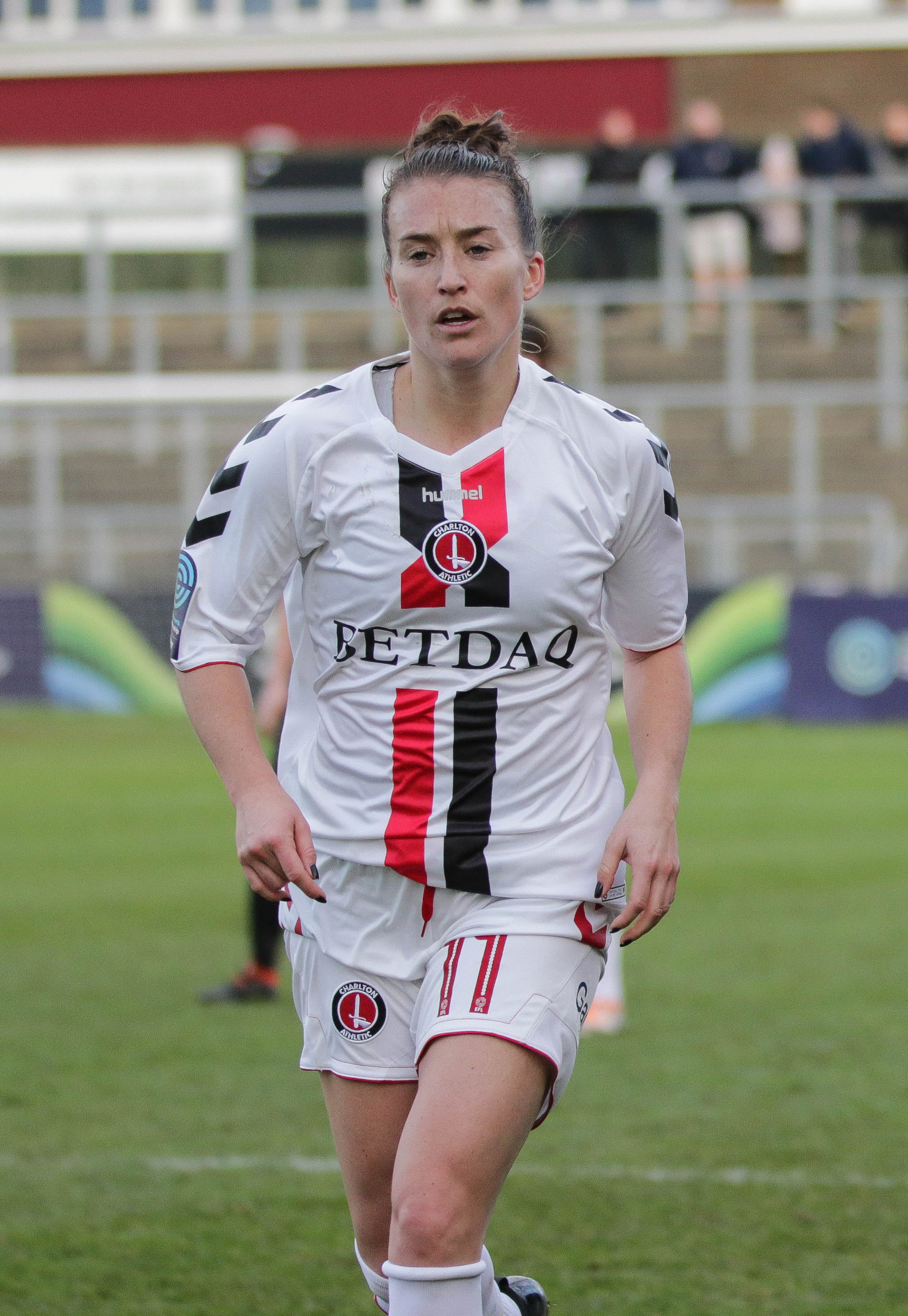 Charlton Athletic footballer Amber Stobbs (11)